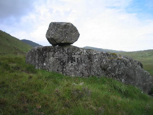 Perched boulder. Deposited by the receding ice approximately 10,000 years ago.